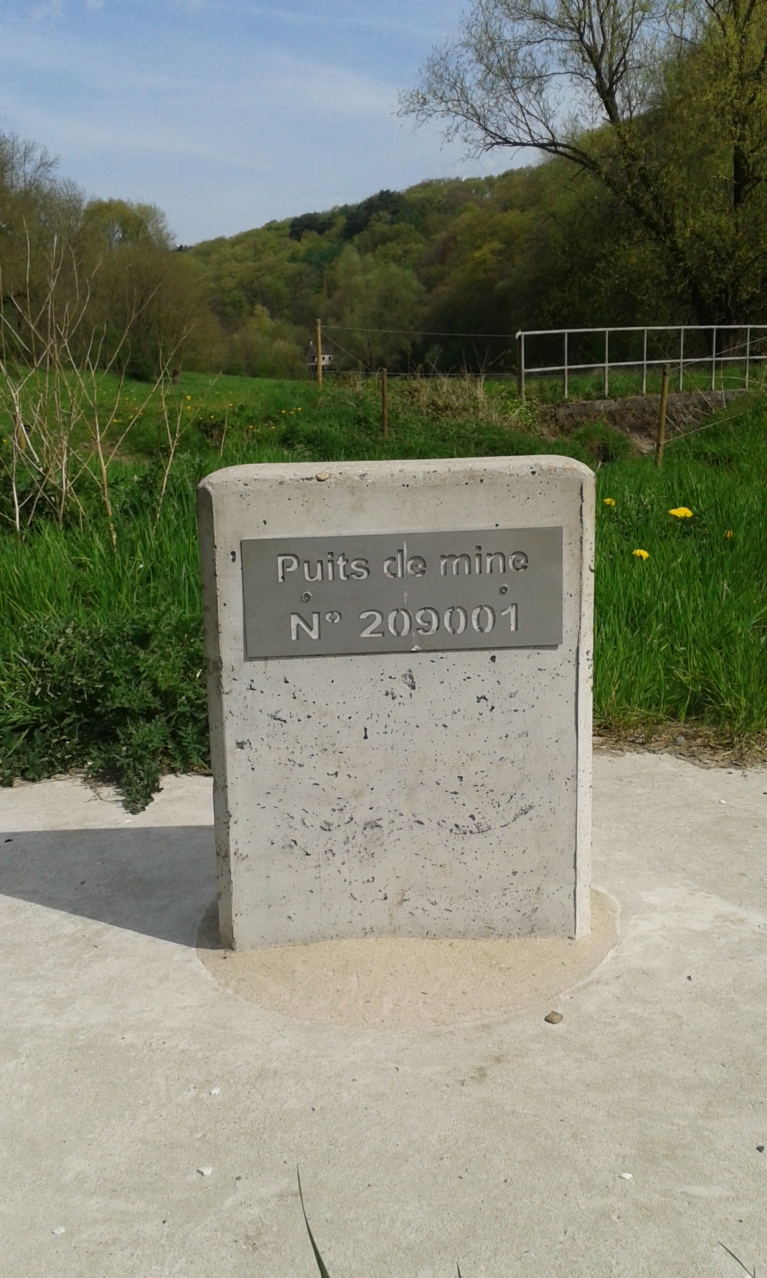 Ancient 209001 pit of the Argenteau coal mine, Belgium